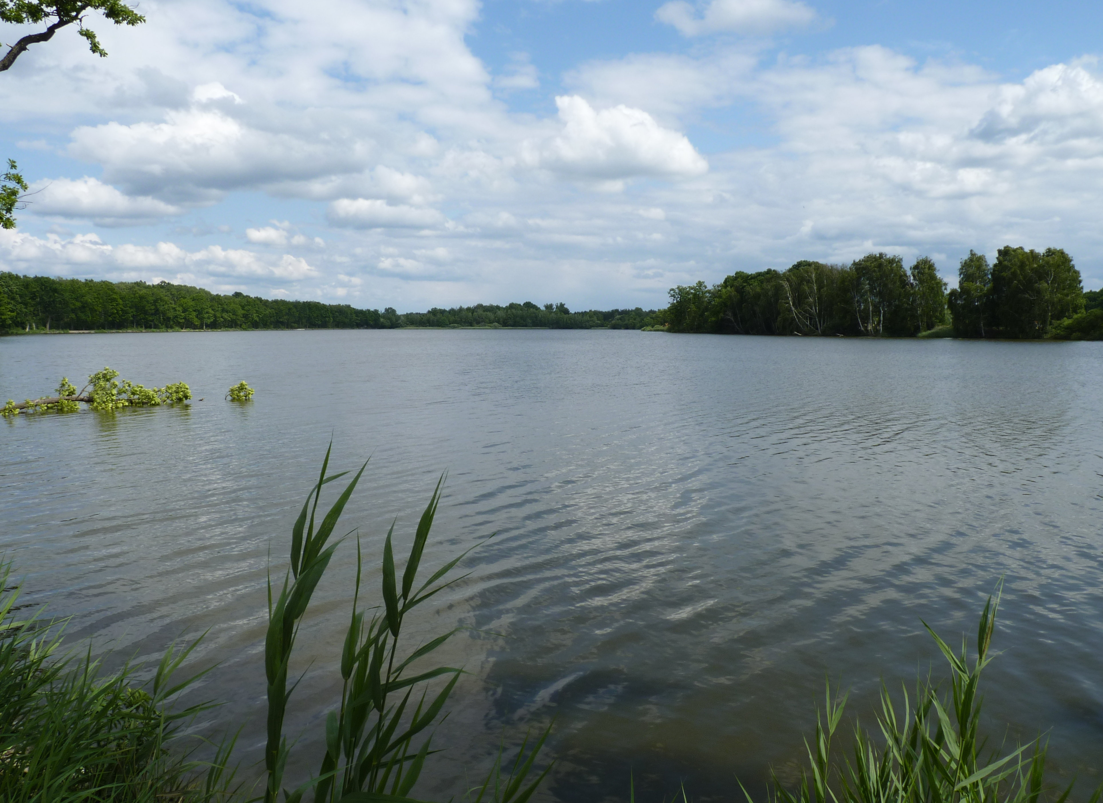 Vítek Pond. Jindřichův Hradec District, South Bohemian Region, Czech Republic